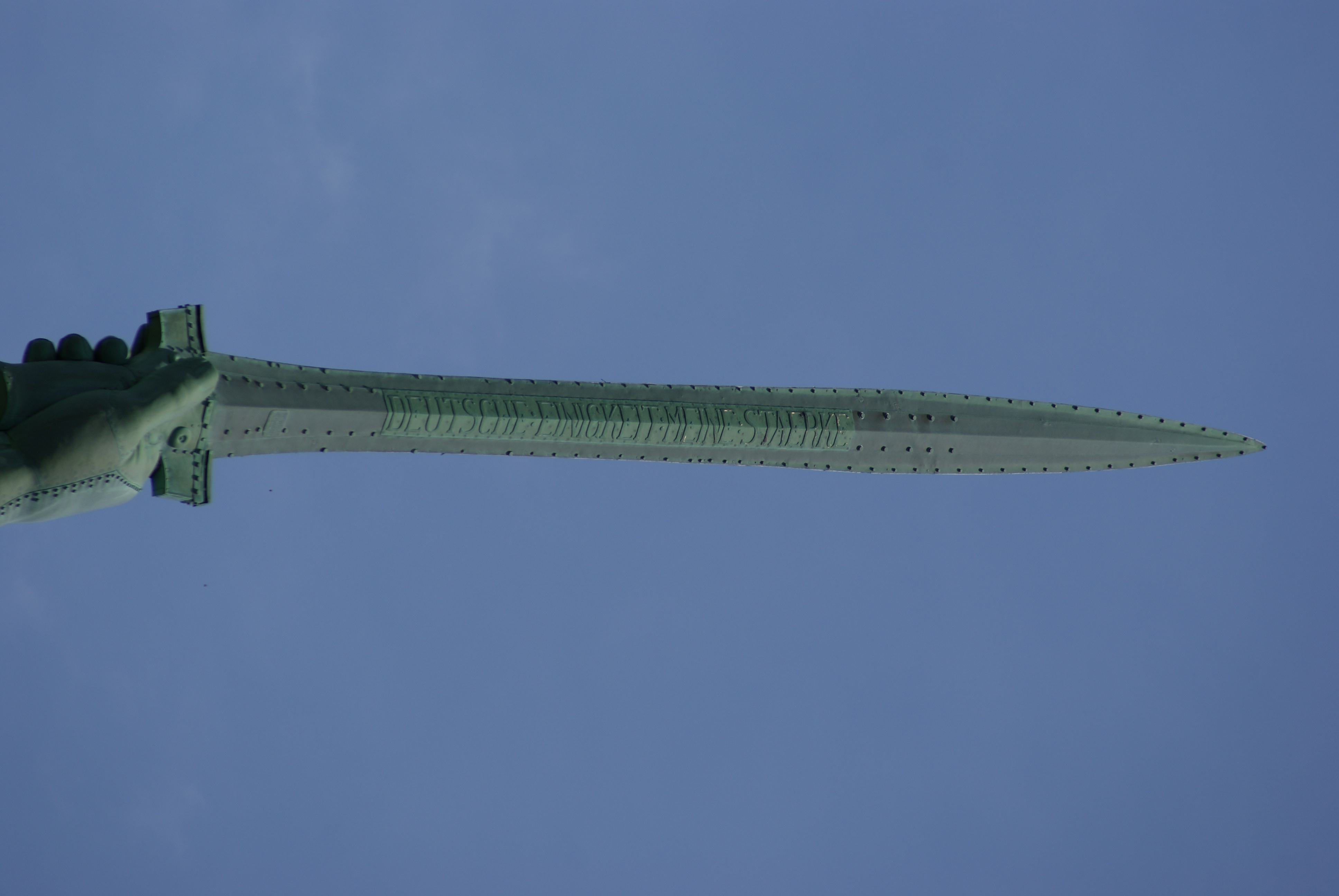 Sharp picture of the sword of Hermannsdenkmal, text is very readable